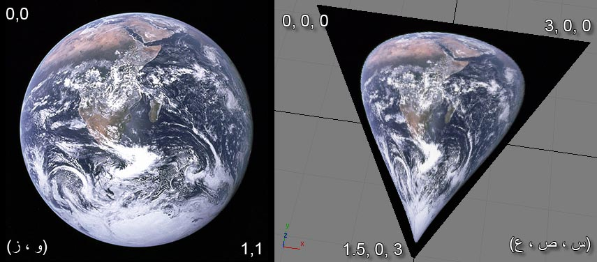 Texturing a 3D triangle with a 2D image map. For use in the Wikipedia's Arabic version of the article Texture Mapping.